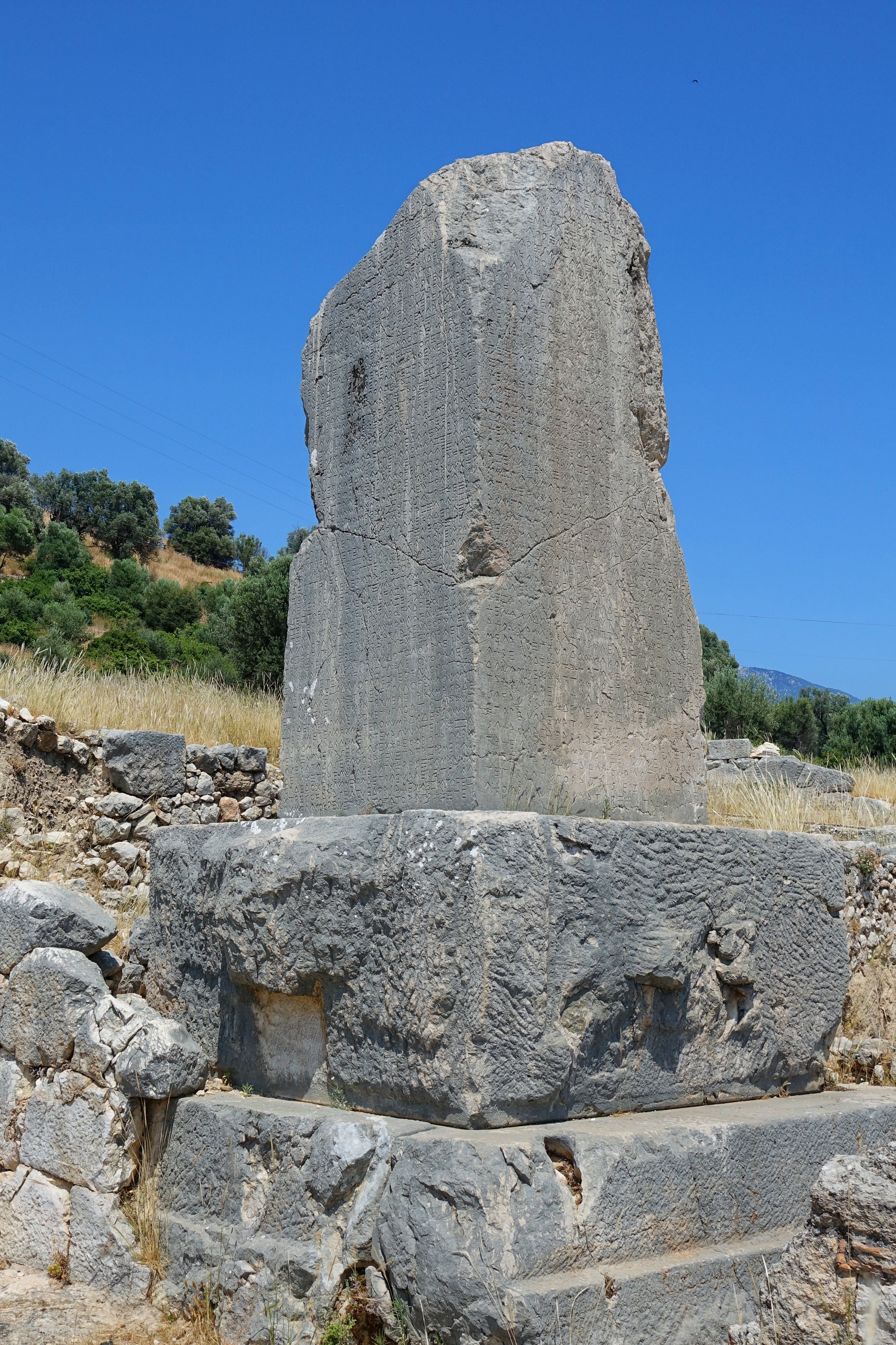 The obelisk was originally the foundation of a Lycian tomb, with inscriptions in ancient Greek, Lycian and Milyan.